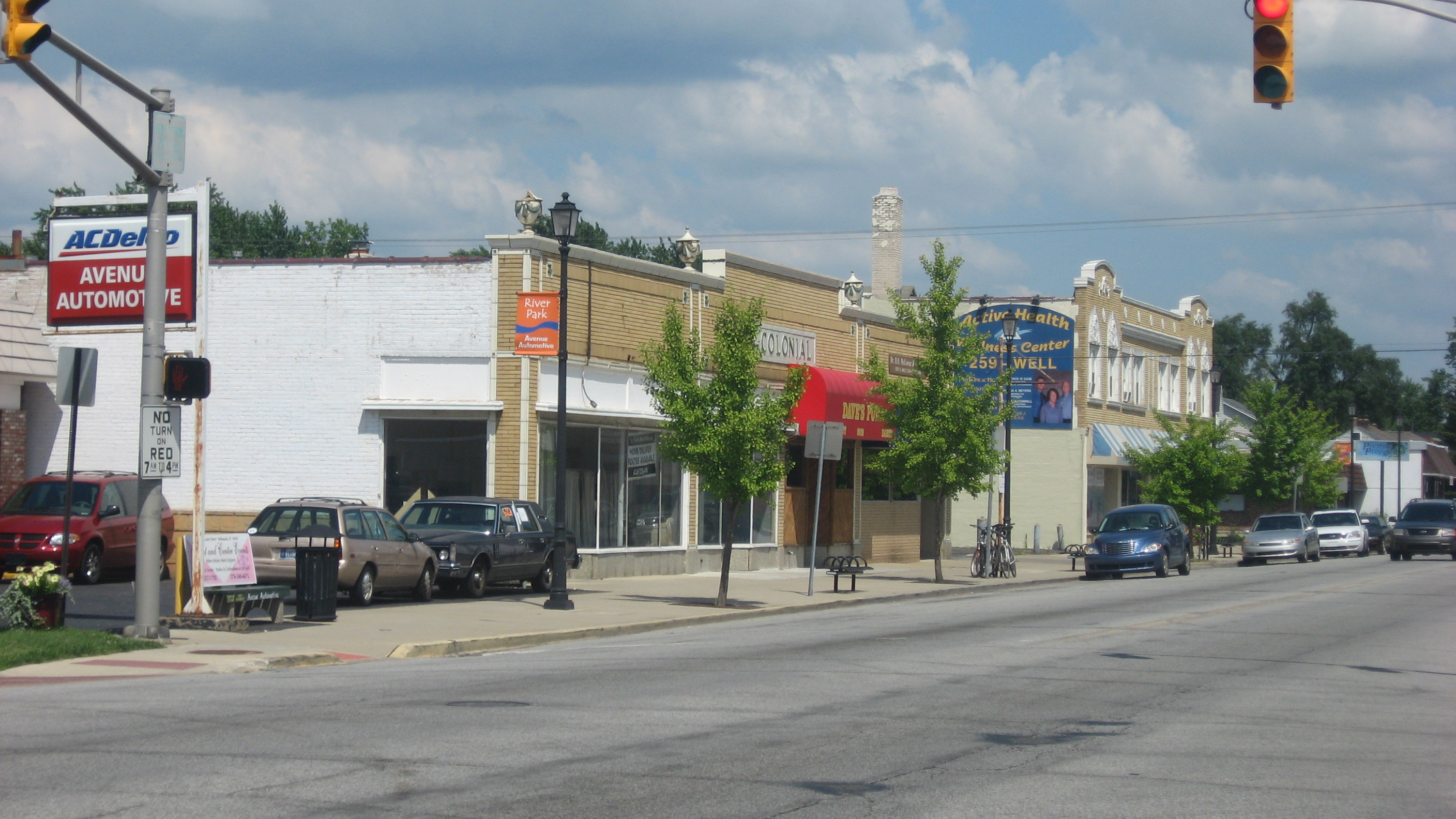 Buildings on the northern side of the 2900 block of Mishawaka Avenue in South Bend, Indiana, United States. This block is part of the Colonial Gardens Commercial Historic District, a historic district that is listed on the National Register of Historic Places.